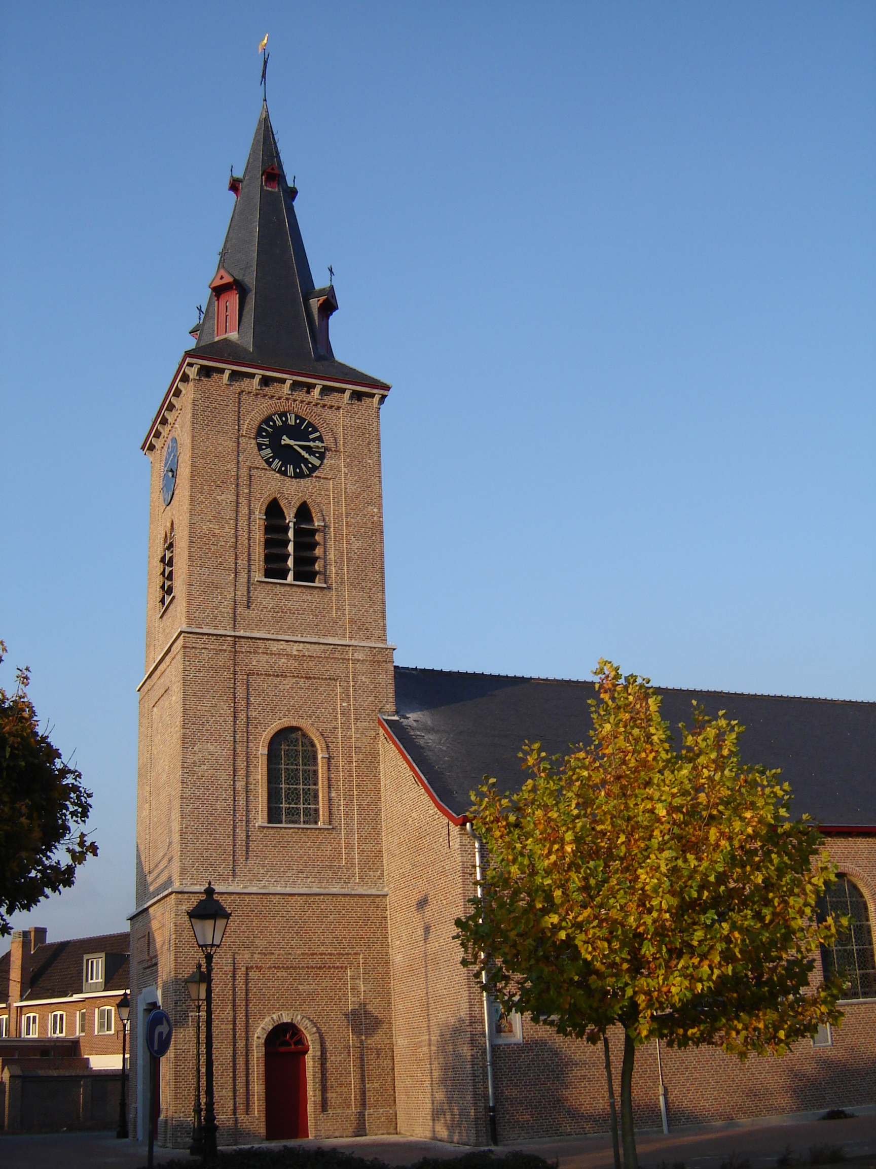 Church of the Nativity of Mary in Schuiferskapelle. Schuiferskapelle, Tielt, West Flanders, Belgium